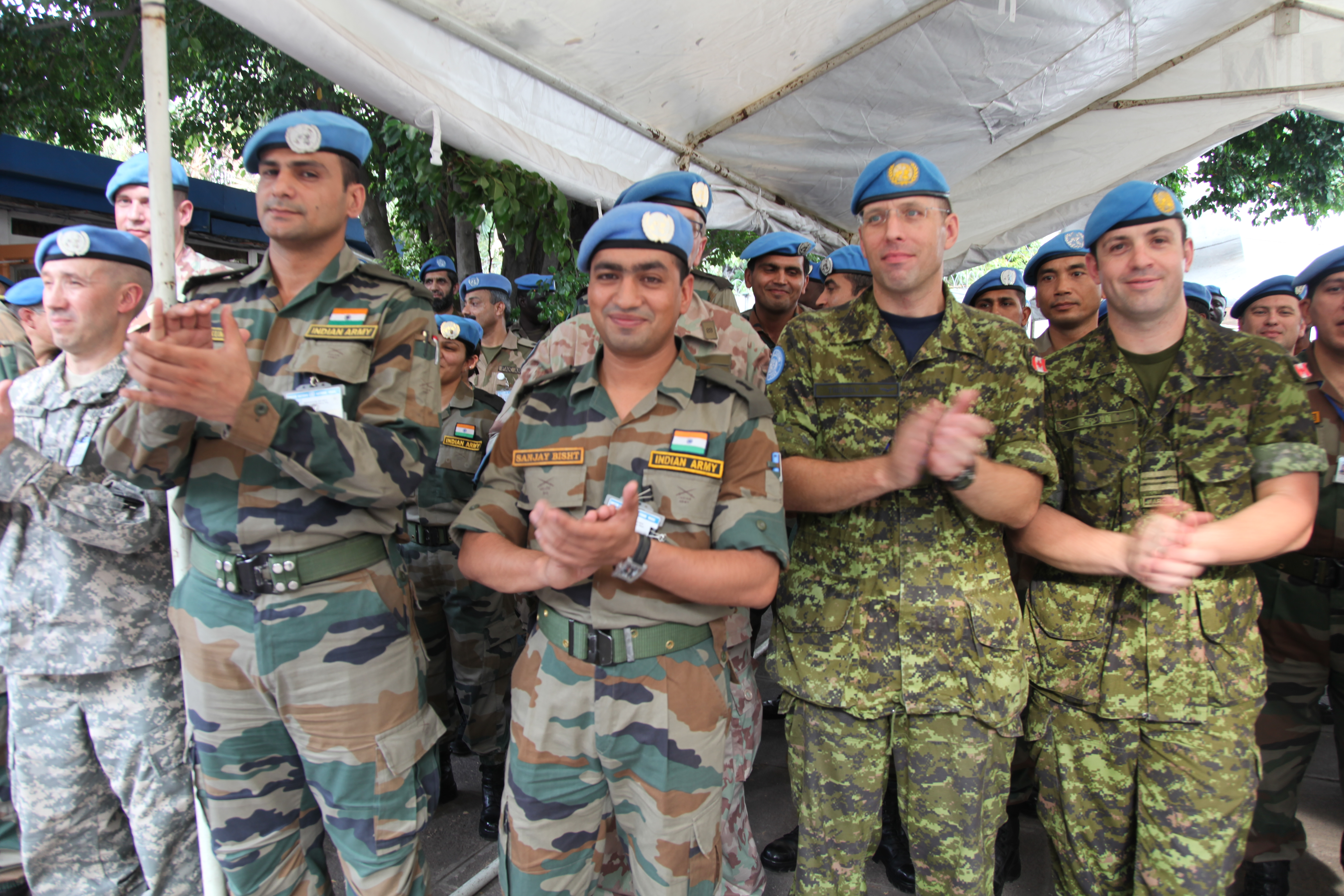 2013_03_Last day Force Commander Prakash Military Fairwell -Kinshasa HQ. Photo MONUSCO/ Myriam Asmani